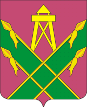 Kropotkin (Krasnodar krai), coat of arms